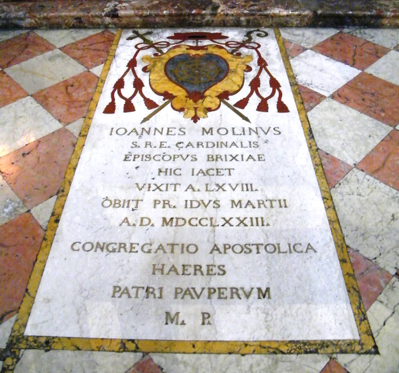 Giovanni Molin. Grave in Duomo Nuovo, Brescia.